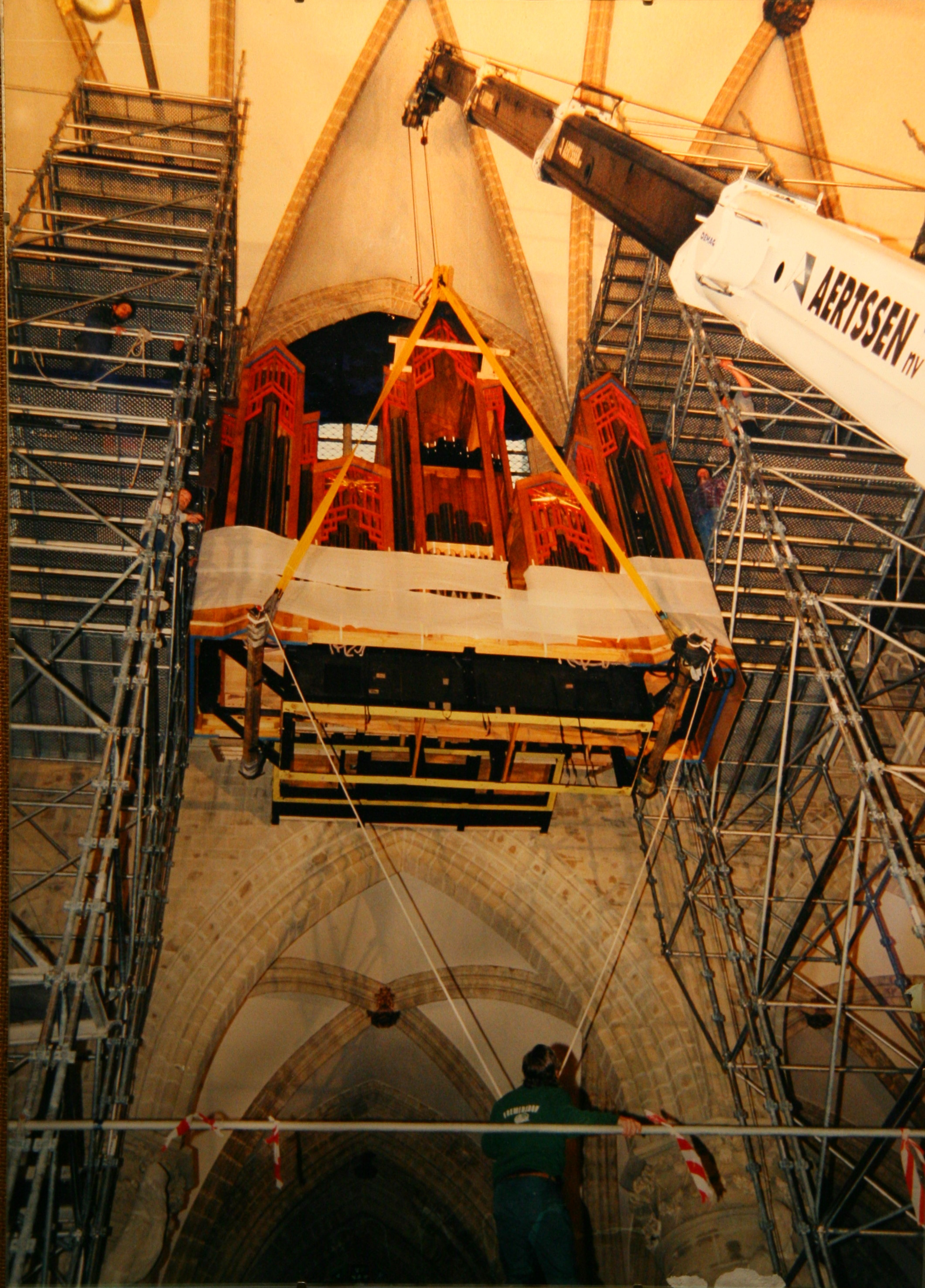 Scenes from the history of the Cathédrale Saints-Michel-et-Gudule de Bruxelles: replacement of the organ towards the end of the restoration in 1999.